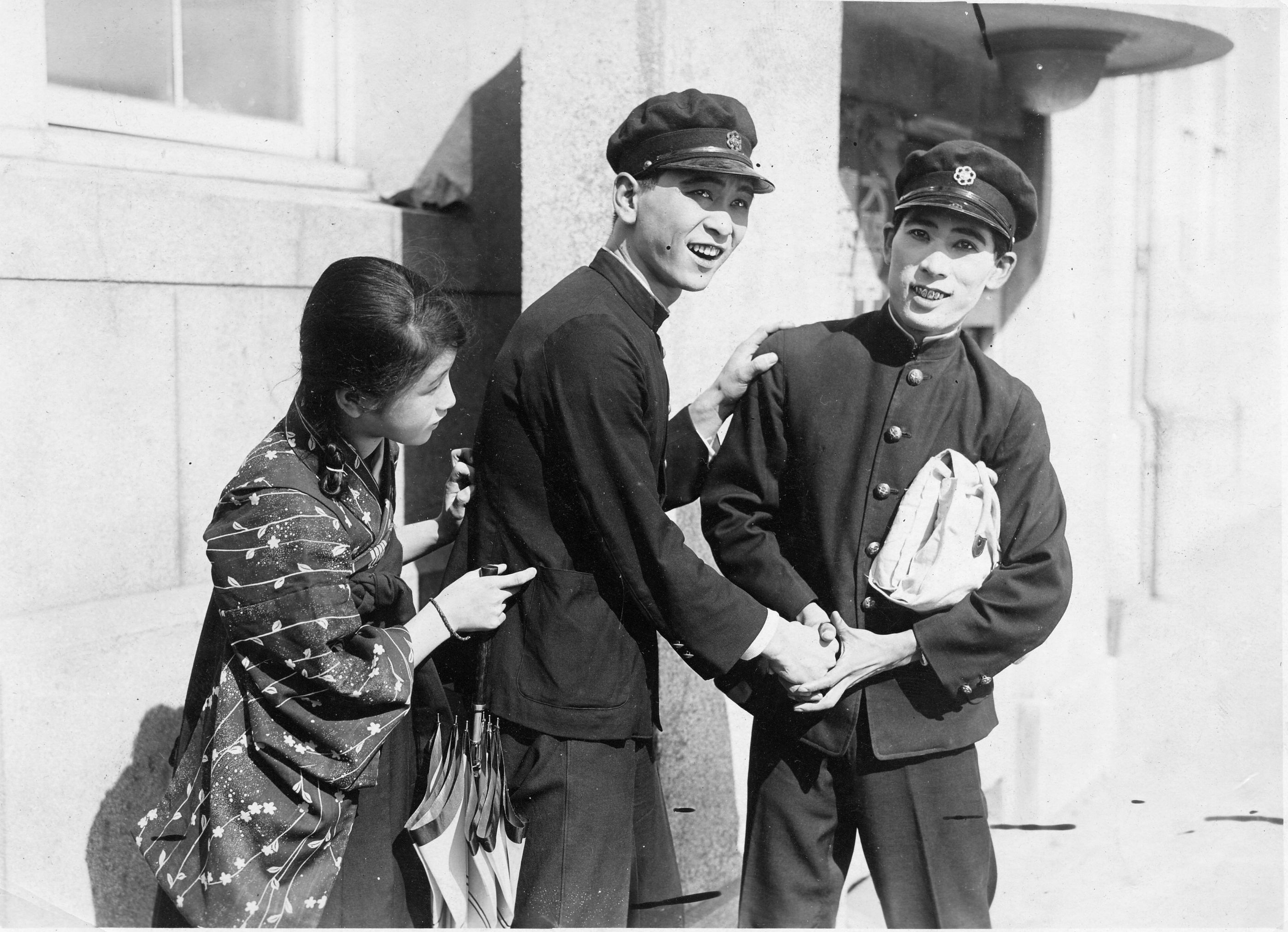 Michiko Tachibana, Kentaro Kawamata and Shigeru Mokudō in Furusato no uta (1925)